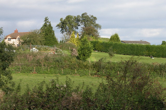 Castle Tump, Dymock. Just visible behind the hedge in the middle of the picture is the motte and bailey of a medieval castle at Castle Tump. The motte stands 14m high and has a flattened top 8m in diameter.